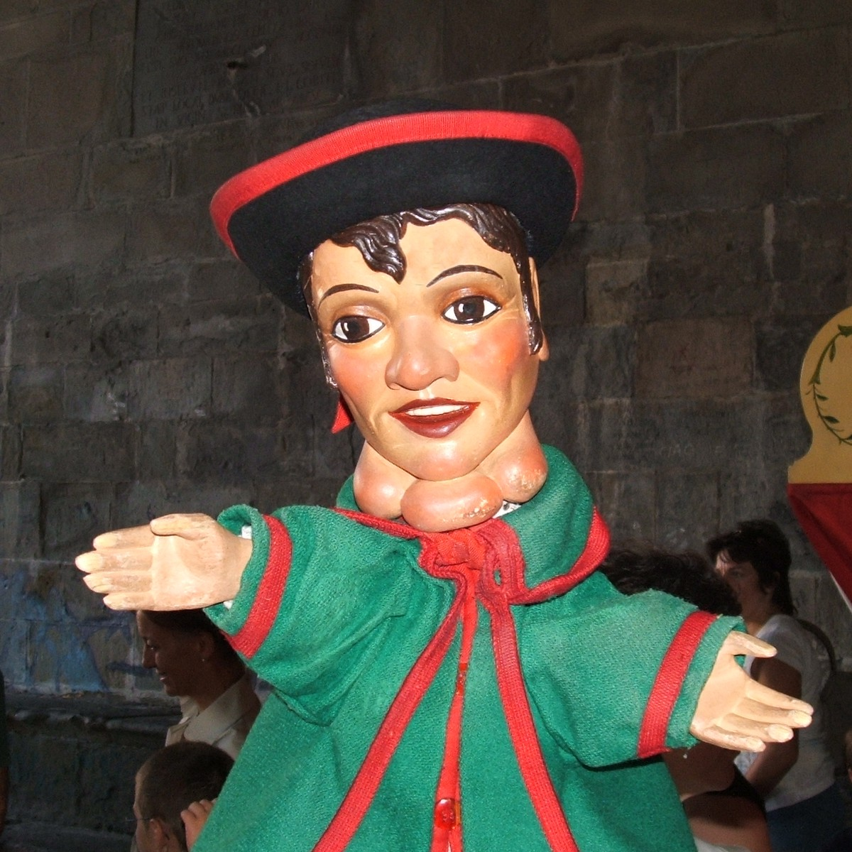 Puppet Gioppino, Bergamo Italy